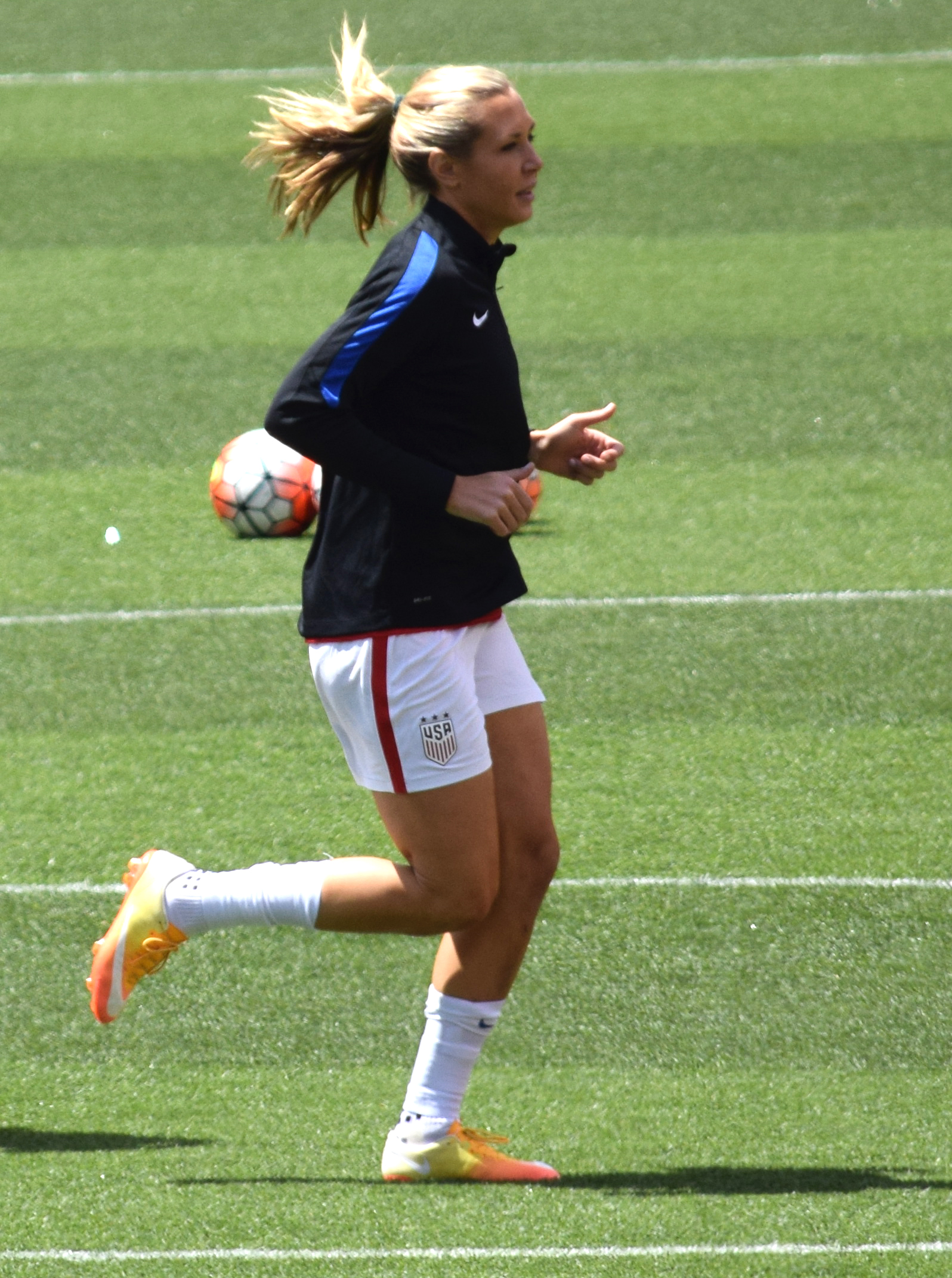 Allie Long with the USWNT before a match against Japan on June 5, 2016